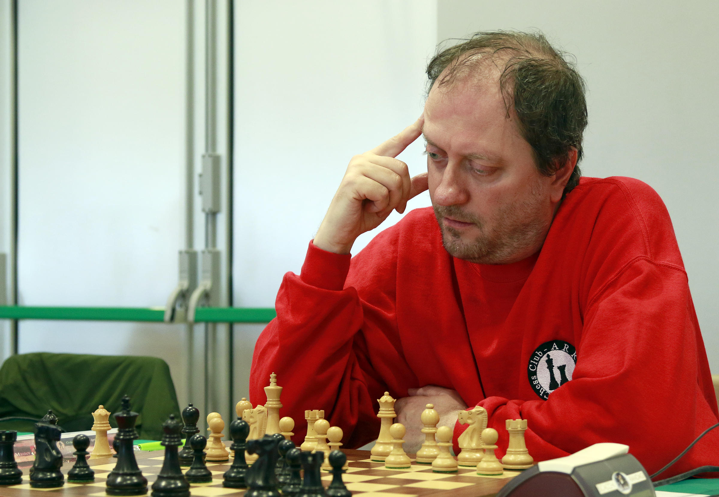 Horvath Csaba. Hungarian chess Grandmaster. 47° Italian Team Championship, 2015. Civitanova Marche (Italy)